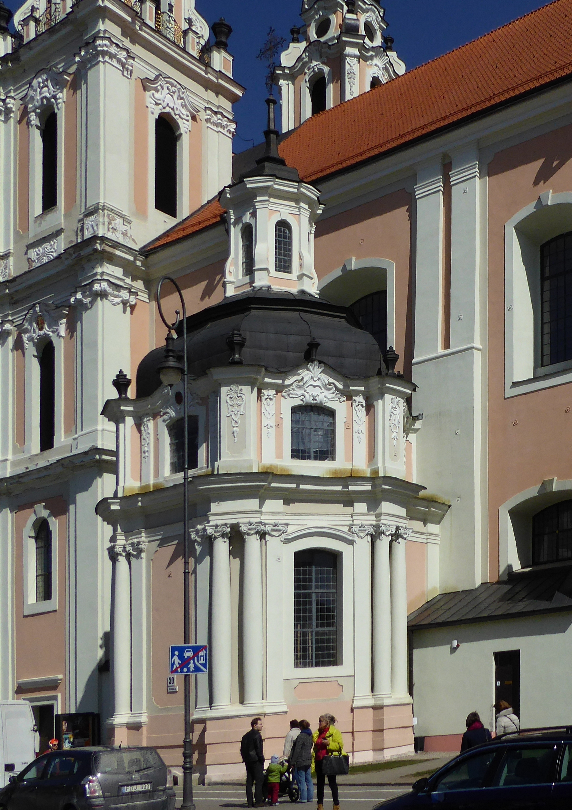 Church of St Catherine, Vilniaus Street, Vilnius, Lithuania, April 2015